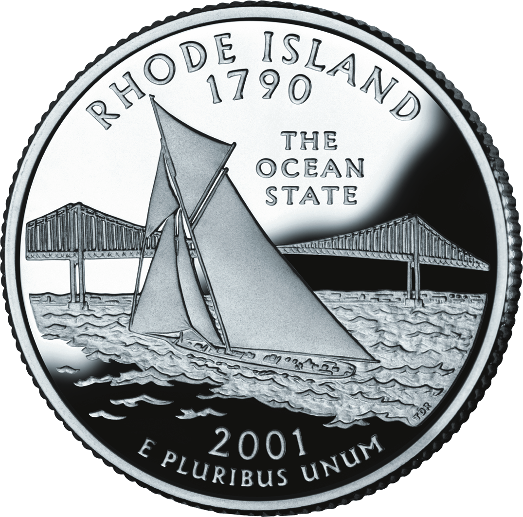 Removed background, cropped, and converted to PNG with Macromedia Fireworks. This image depicts a unit of currency issued by the United States of America. If Fraudulent use of this image is punishable under applicable counterfeiting laws. As listed by the United States Secret Service at money illustrations, the Counterfeit Detection Act of 1992, Public Law 102-550, in Section 411 of Title 31 of the Code of Federal Regulations (31 CFR 411), permits color illustrations of U.S. currency provided:1. The illustration is of a size less than three-fourths or more than one and one-half, in linear dimension, of each part of the item illustrated;2. The illustration is one-sided; and3. All negatives, plates, positives, digitized storage medium, graphic files, magnetic medium, optical storage devices, and any other thing used in the making of the illustration that contain an image of the illustration or any part thereof are destroyed and/or deleted or erased after their final use. Certain coins contain copyrights licensed to the U.S. Mint and owned by third parties or assigned to and owned by the U.S. Mint [1]. For the United States Mint circulating coin design use policy, see [2]; for the policy on the 50 State Quarters, see [3]. Also: COM:ART #Photograph of an old coin found on the Internet